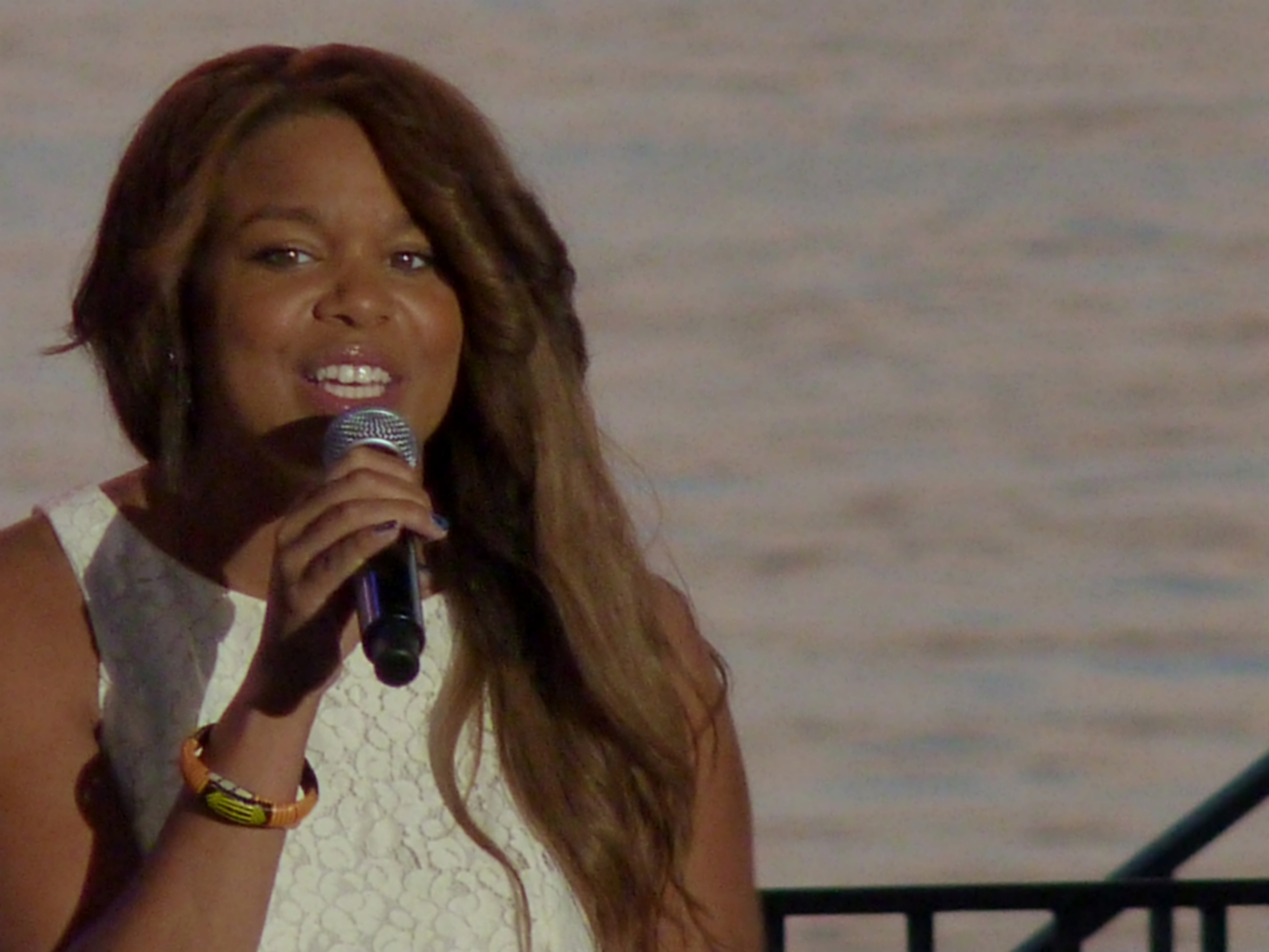 Mélissa Nkonda performing at La Nuit des Hits of Juan-les-Pins for Enfant Star & Match association.